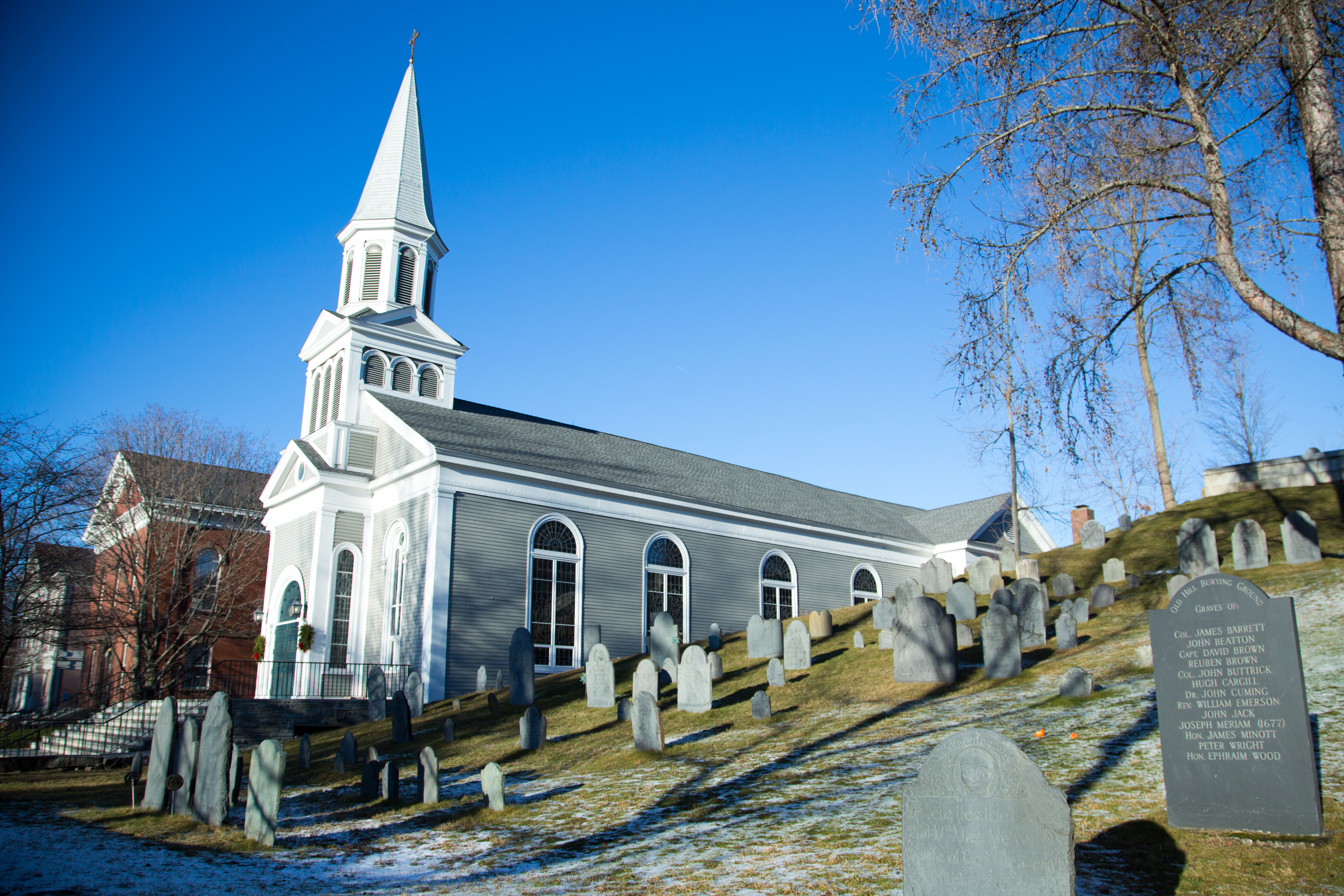 Church and cemetery in Concord, Mass